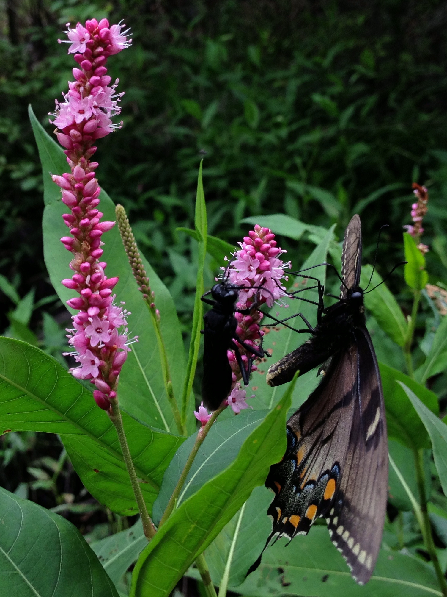 Photo of Polygonum amphibium in flower. This is a native plant growing wild in Great Falls Park, Fairfax county Virginia, USA. This species is a member of the Polygonaceae family. This species was recently renamed Persicaria amphibia.